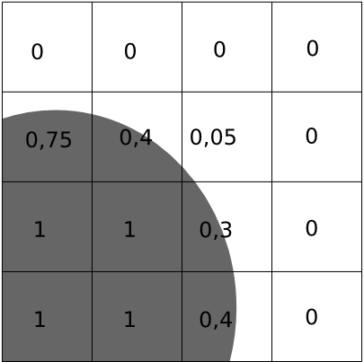 Schematic description of volume of fluid method